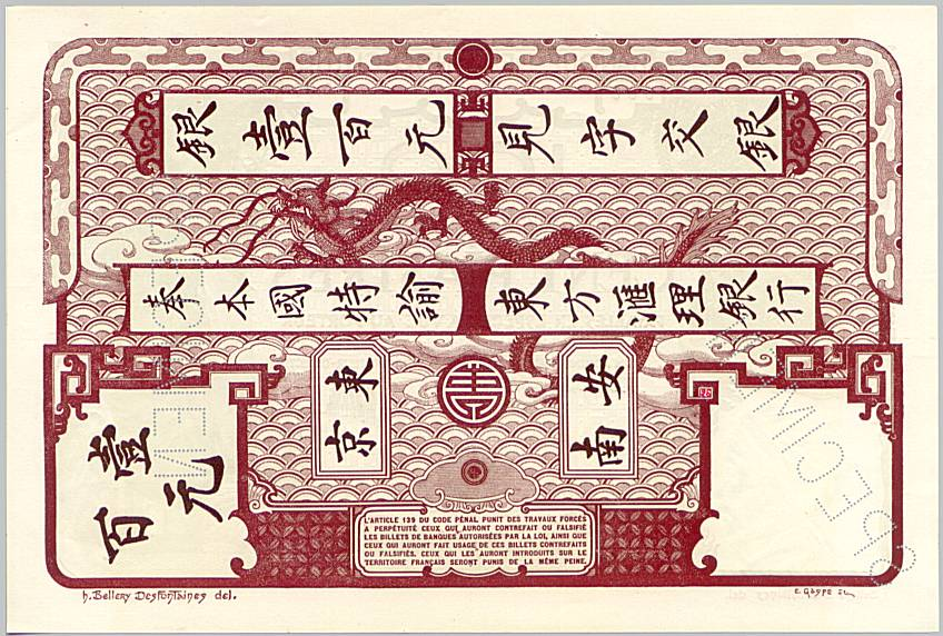 French Indochina 100 Piastres 1925, Haiphong branch, Specimen, back